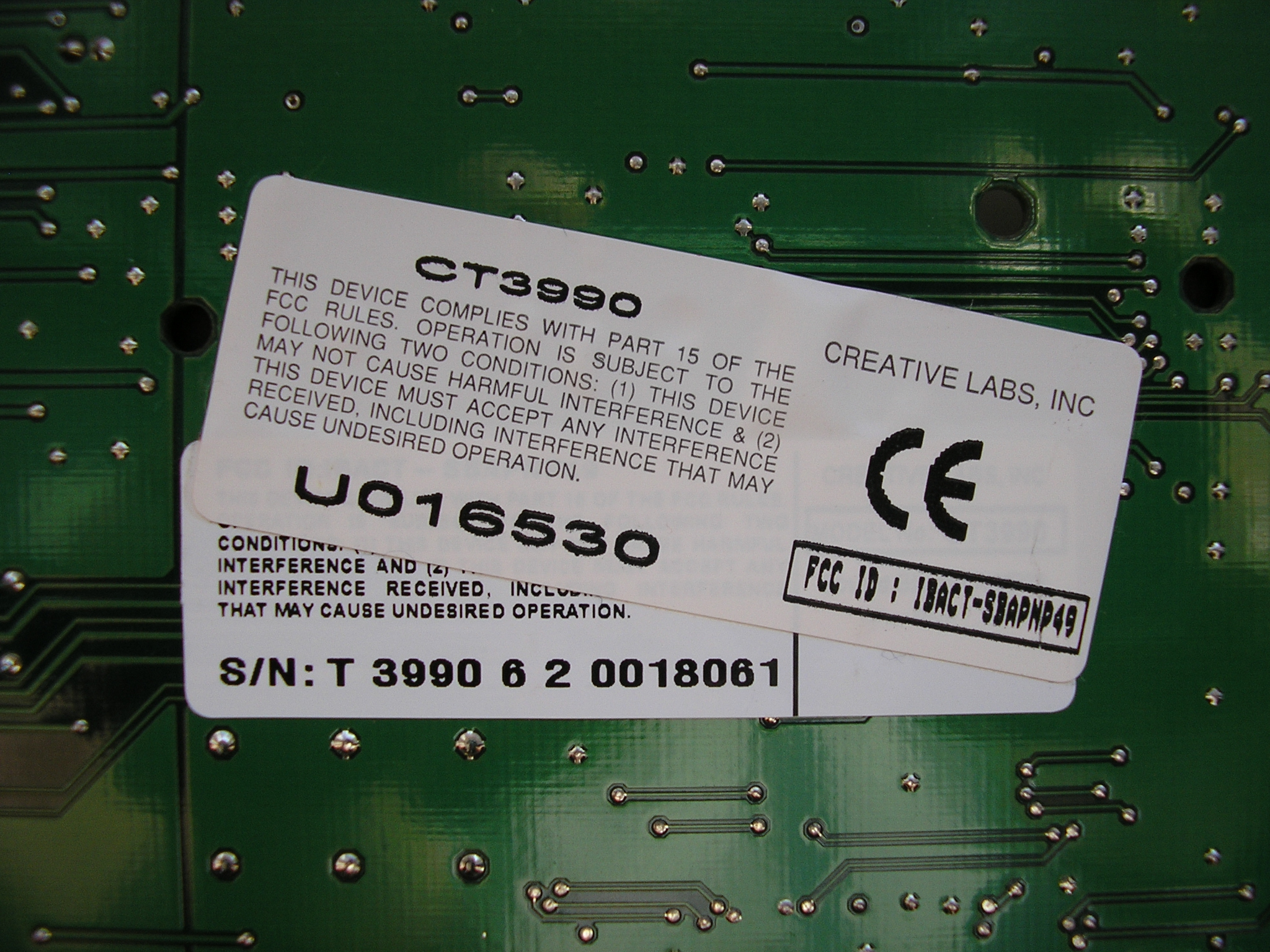 Creative Labs, Inc. Sound Blaster AWE32 PNP CT3990 labels On the old white sticker: FCC ID:IBACT-SBAPNP49 I CREATIVE LABS INC THIS DEVICE COMPLIES... I MODEL No: CT3990 ... I Sound Blaster AWE32 S/N: T 3990 6 2 0018061 I PNP On the new white sticker: CT3990 CREATIVE LABS INC THIS DEVICE COMPLIES... ... CE logo U016530 FCC ID : IBACT-SBAPNP49